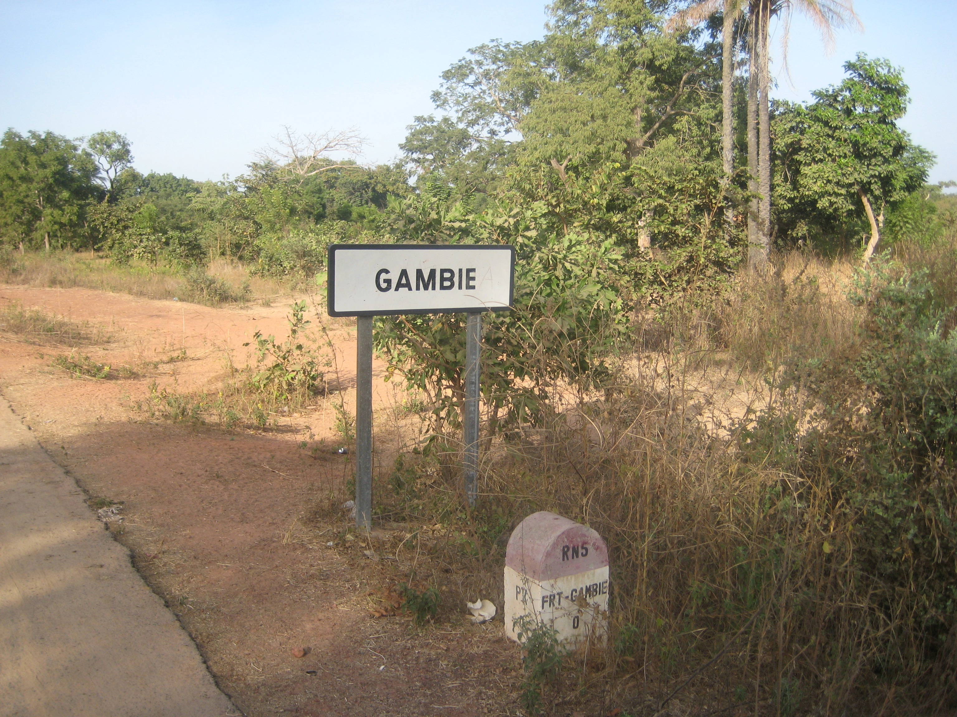 state border sign Gambia at road number RN 5 / km 0